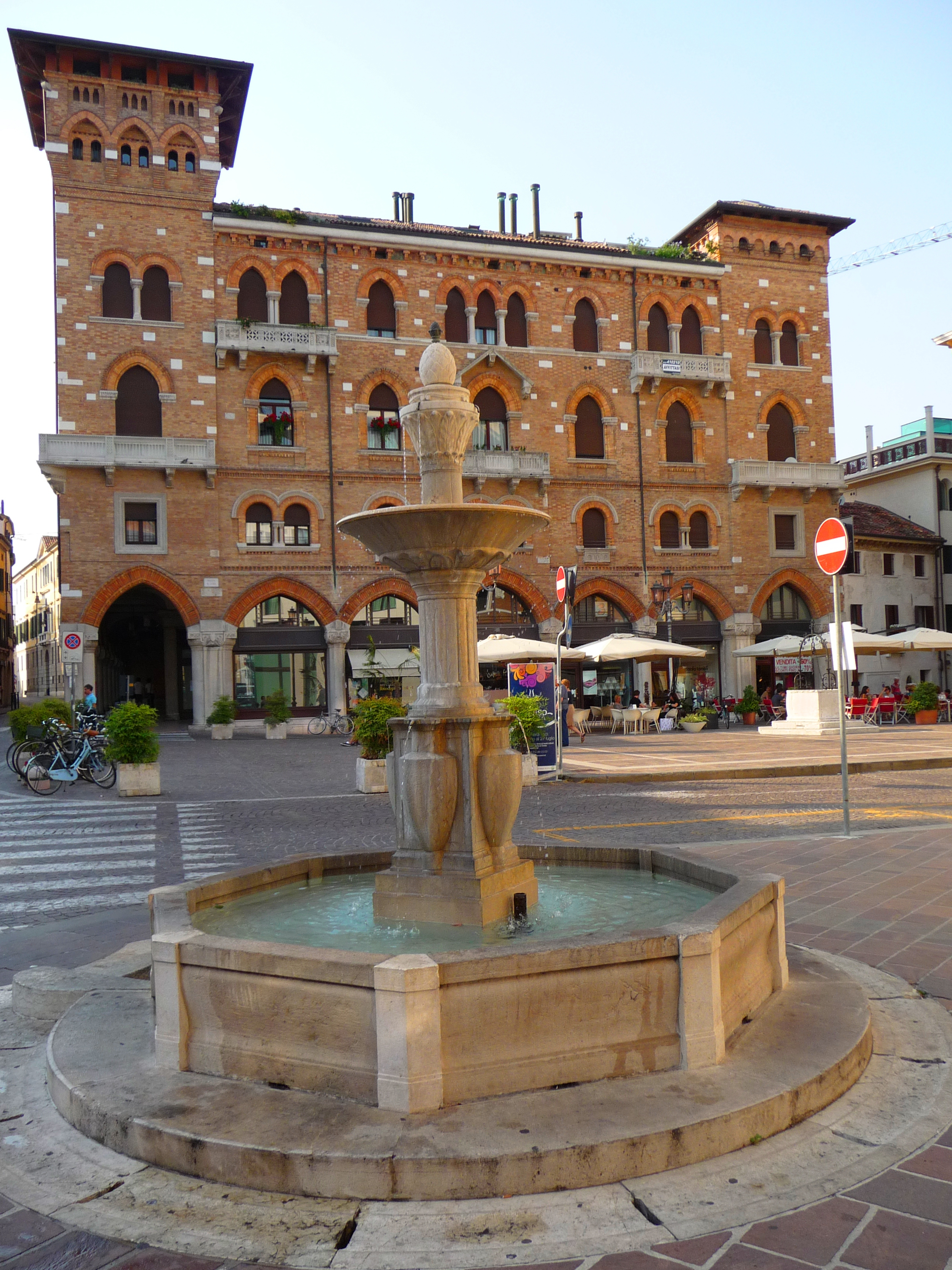 Fountain in piazza san Vito, Treviso (IT)